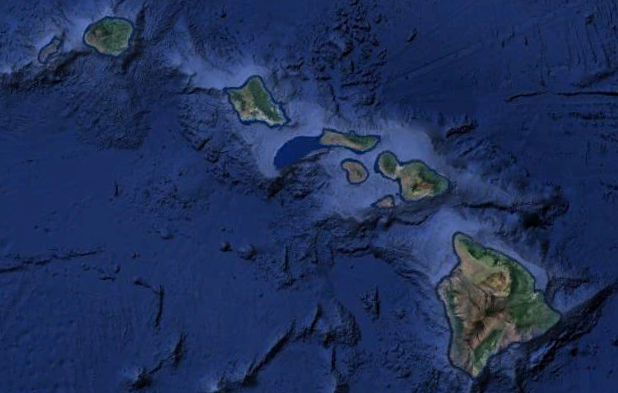 A satellite composite image of the state of Hawaii. Volcanoes prevail on the Big Island. The islands have rugged coastlines, sandy beaches and a tropical environment, although temperatures and humidity tend to be less extreme because of near-constant trade winds from the east. Hawaiʻi: Ke kiʻi like kiʻi hānai o ka moku'āinaʻo Hawaiʻi. Ua lanakila nā lua pele ma Big Island. Loaʻa nā mokupuni āpau, nā one kahakai a me kahi ākea o ka'āina,ʻoiaiʻo nā mahana a me ka'iliʻena e emi ana ka mea nui ma muli o keʻano o nā makani kūʻai mai ka hikina.